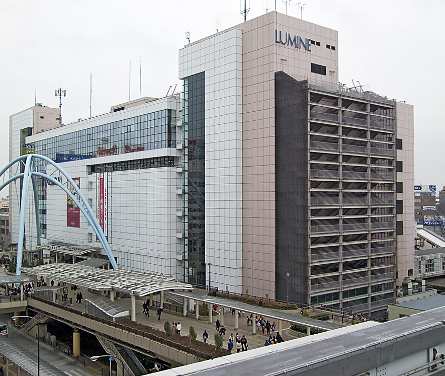 Tachikawa Station, Tachikawa, Tokyo, Japan